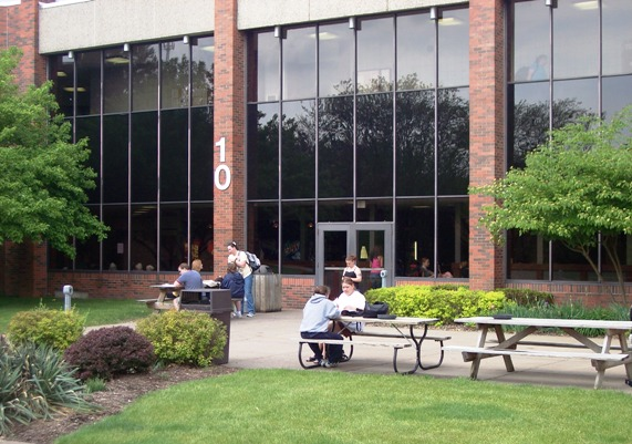 The patio and rear entrance to Scott Community College in Riverdale, Iowa, USA, near Bettendorf.